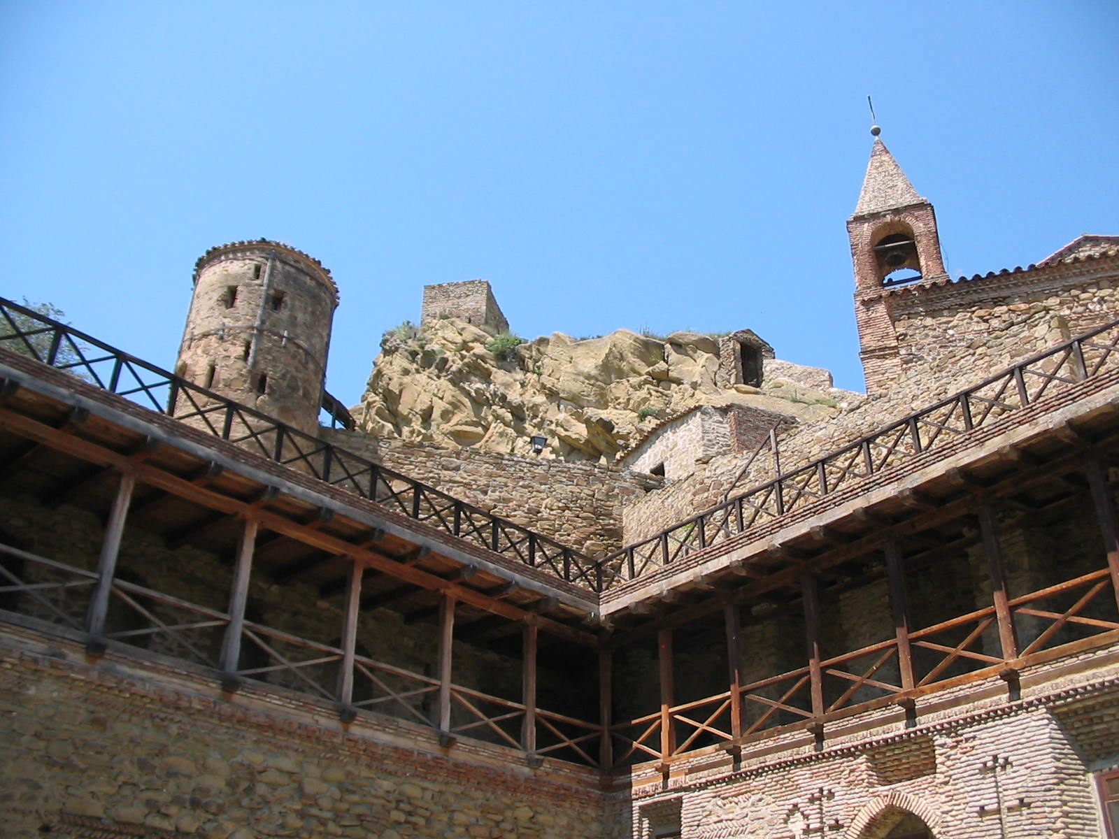 David Gareja monastery complex in the Kakheti region of Eastern Georgia.